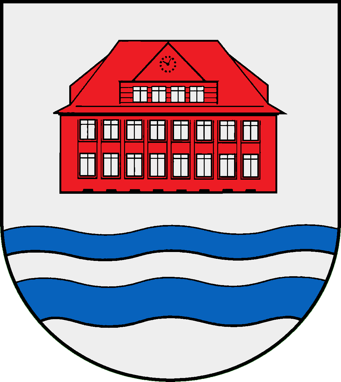 Coat of arms of the municipality Borstel-Hohenraden in Schleswig-Holstein, Germany.